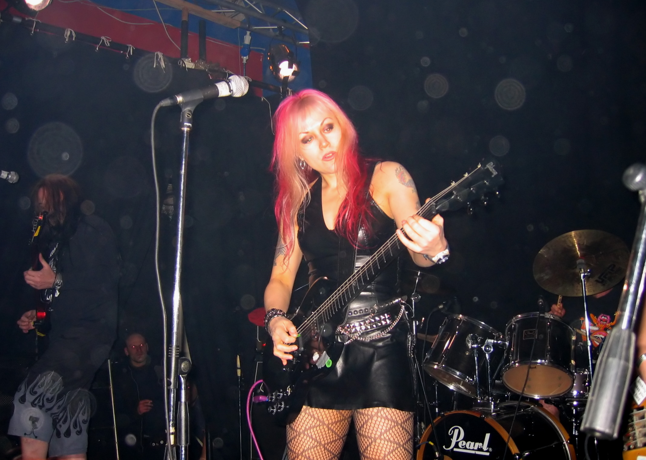 Beki Bondage of the Vice Squad live